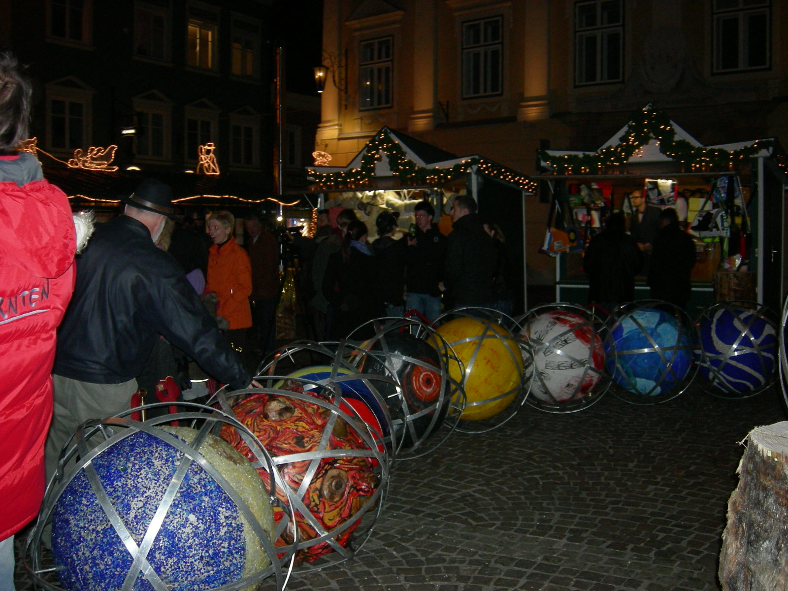 Rolling Stars and Planets exhibition in Sant Veit an der Glan, Carinthia, Austria 2009